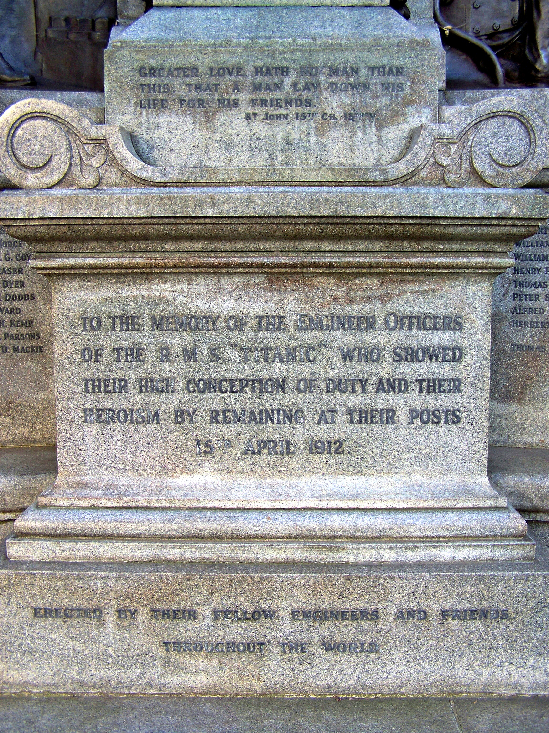 RMS Titanic Engineers Memorial, Southampton. The Inscription reads " Greater Love hath no man than this. That a man lay down his life for his friends." "To the memory of the engineer officers of the R.M.S. "Titanic", who showed their conception of duty and heroism by remaining at their posts 15th April 1912." "Erected by their fellow engineers and friends throughout the world."